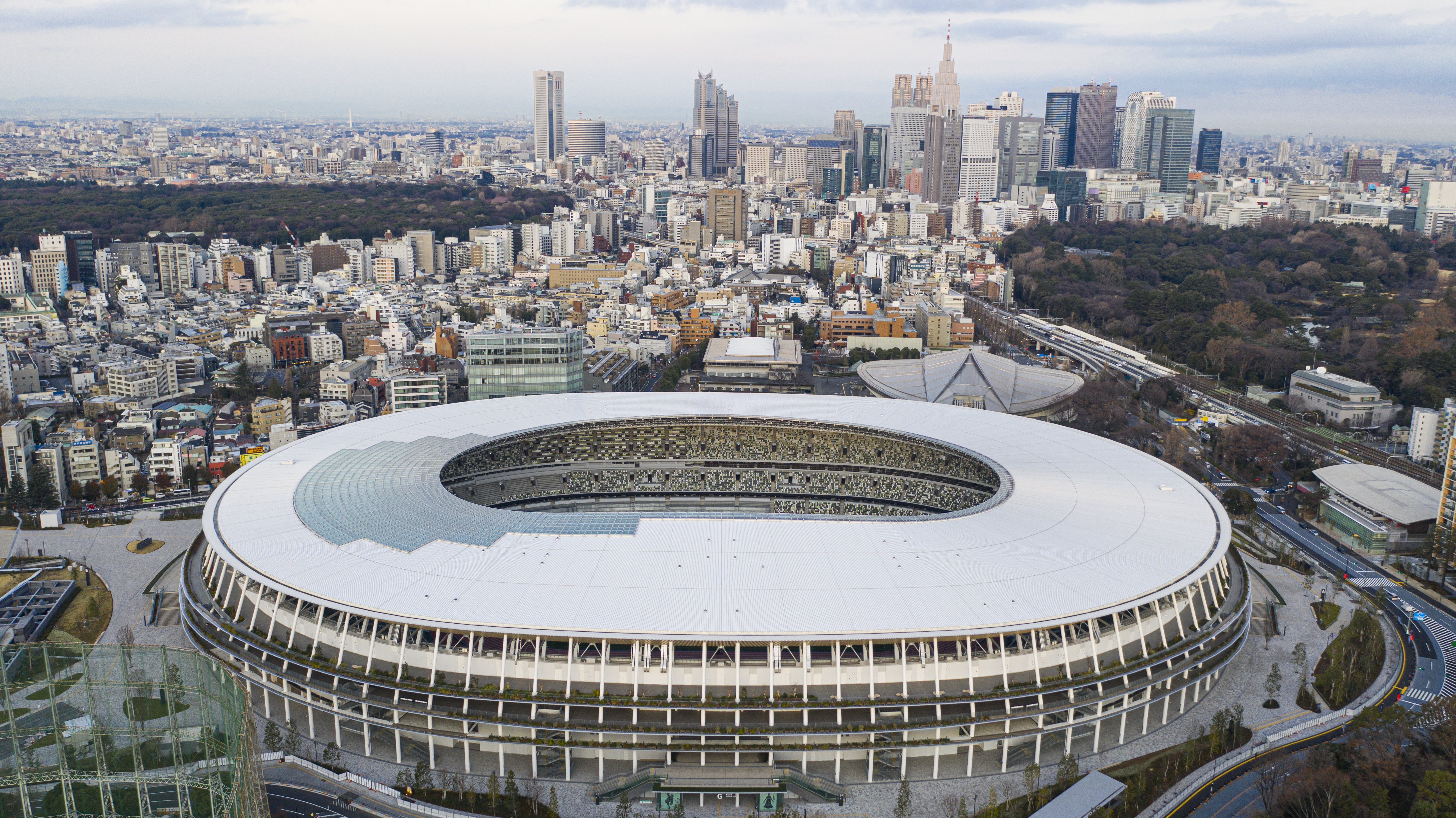 Aerial view of Japan National Stadion, Tokyo